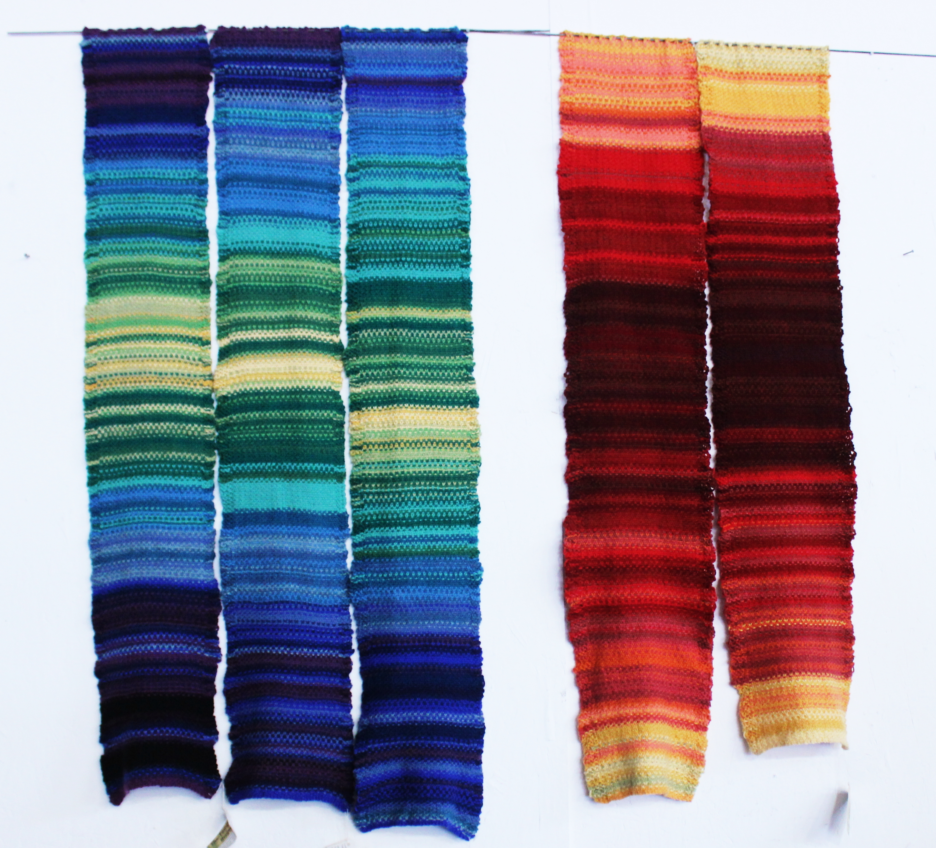 On the left, three Tempestries for Utqiagvik, AK representing (L-R) 1925, 2010, and 2016. On the right, two Tempestries for Death Valley, CA representing (L-R) 1950 and 2016. These were on display in 2018 at FutureFest in Anacortes, WA.